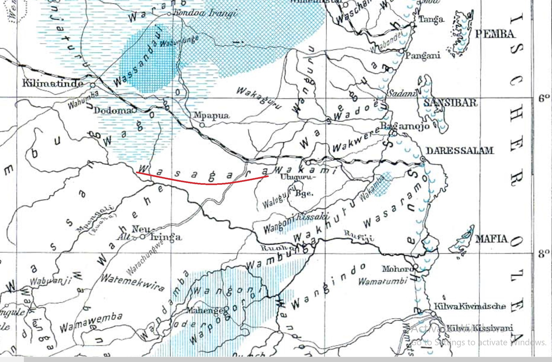 Area of Sagara (Sagala) people in East Africa between rivers Ruaha and Wami around year 1900